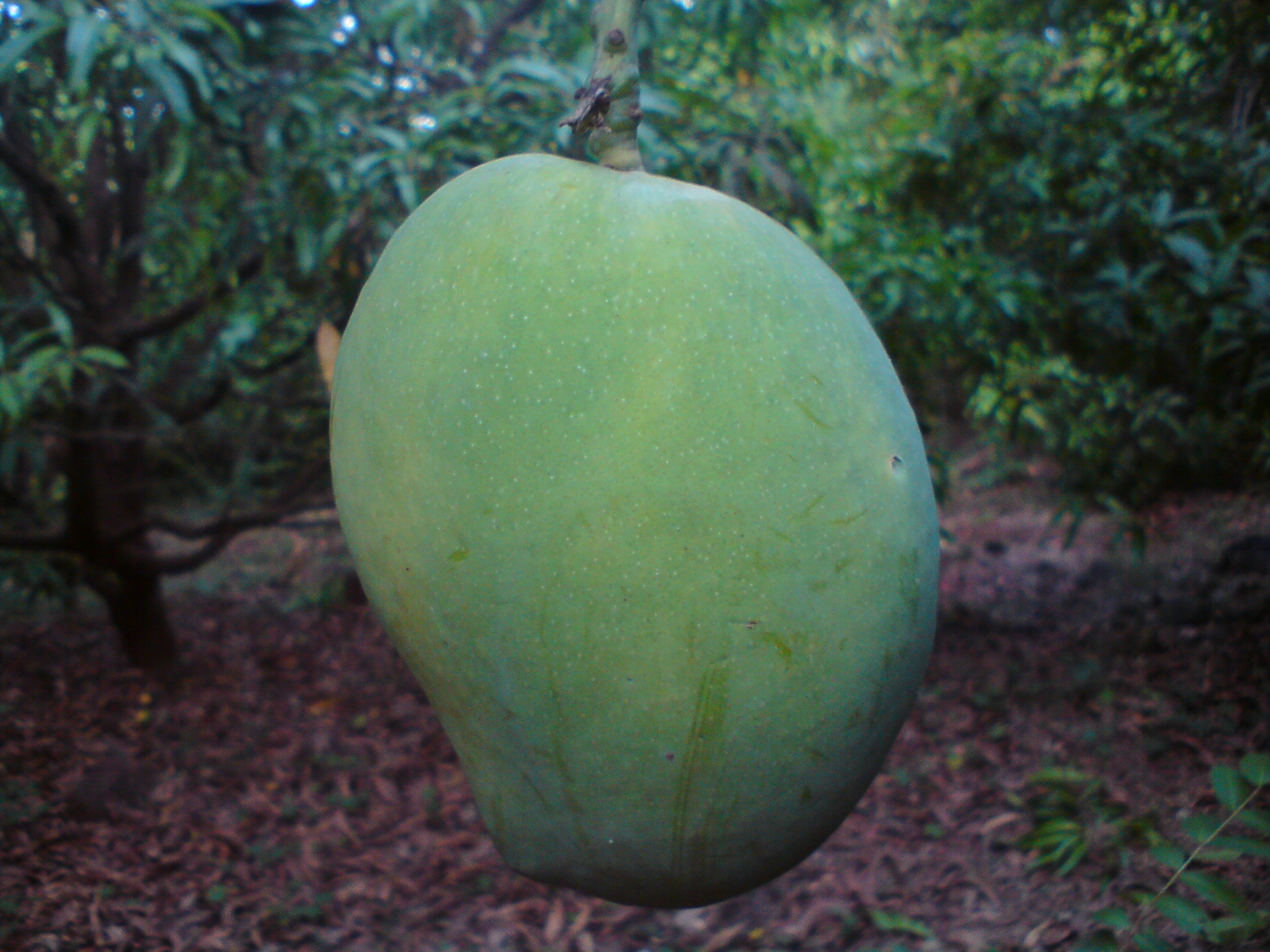 An unripe mango of Ratnagiri, a famous city for mangoes in Maharashtra state of India.